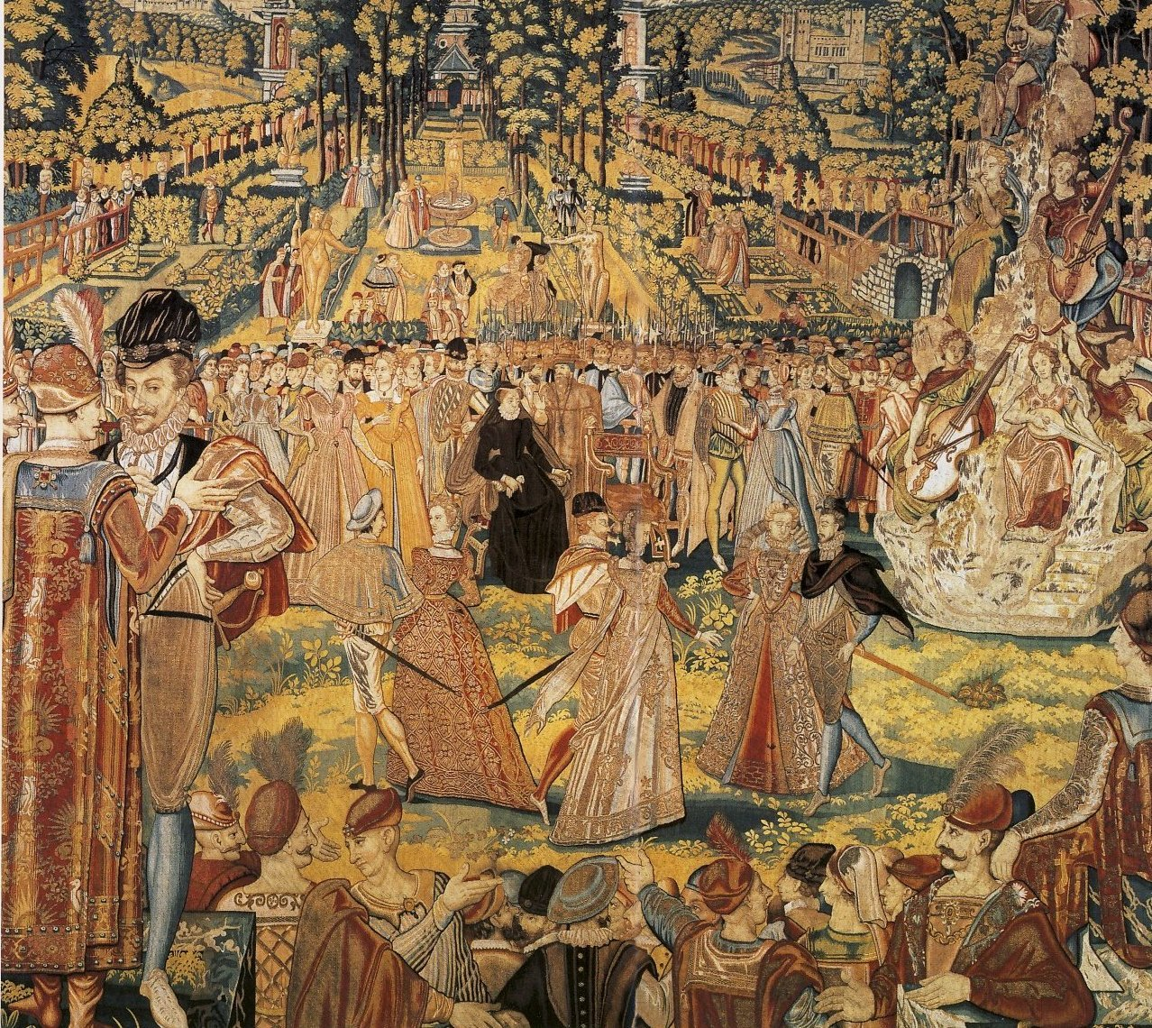 Tapestry depicting a ball held by Catherine de' Medici at the Tuileries Palace, Paris, in 1573 in honour of Polish envoys visiting to present the throne of Poland to her son Henry, Duke of Anjou, the future Henry III of France. The tapestry is one of a series, known as the "Valois Tapestries", celebrating the court festivals or "magnificences" of Catherine de' Medici.